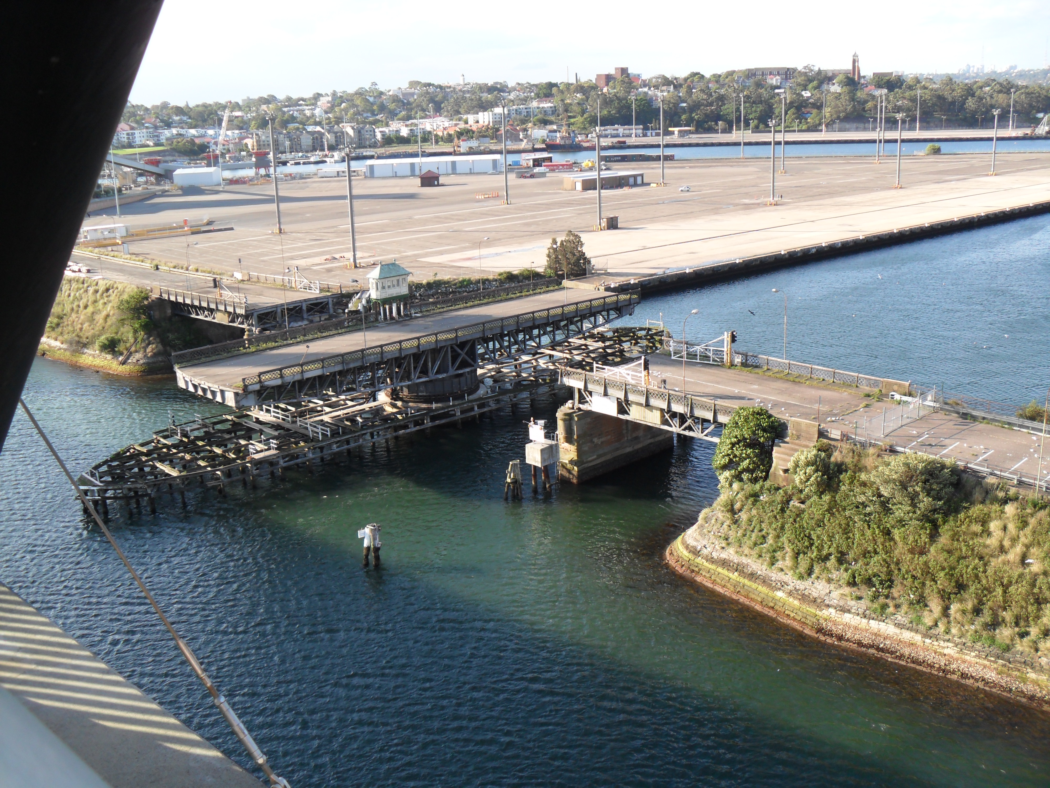 Glebe Island viewed from ANZAC Bridge.